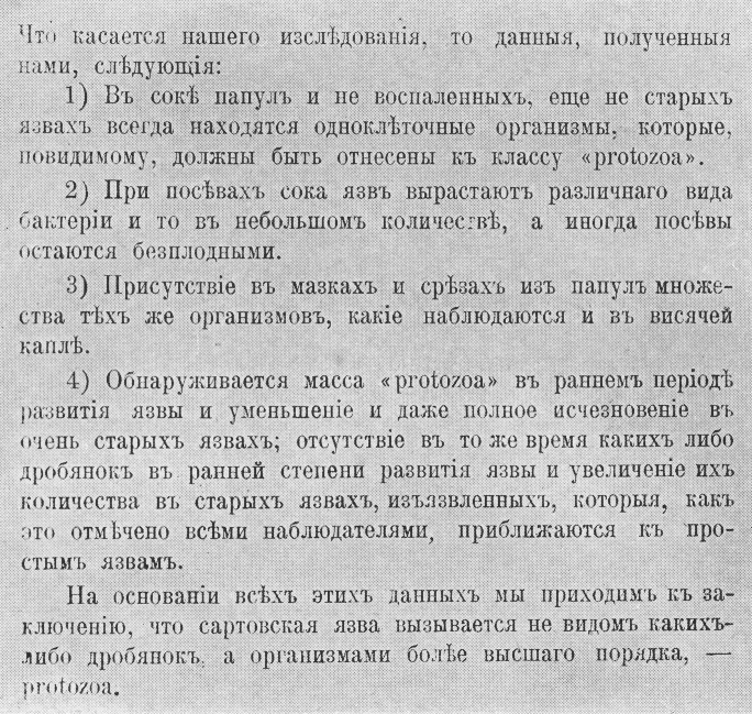 Facsimile of part of page 939 in Borovsky’s memoir in Voenno-meditsinsky zhurnal, Part CLXXXXV, Book 11, November 1898.